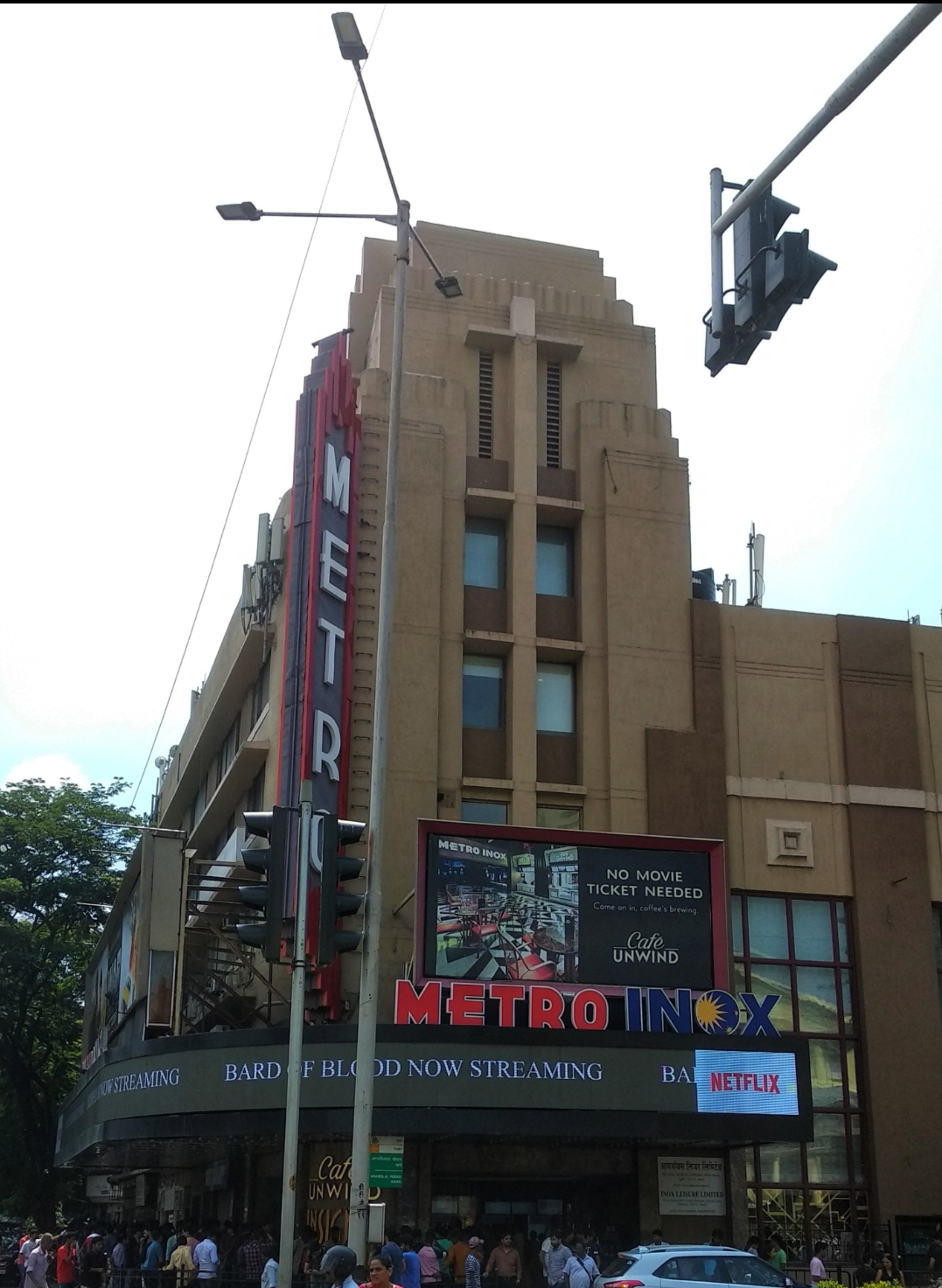 North side of the main entrance of the Metro INOX Cinemas